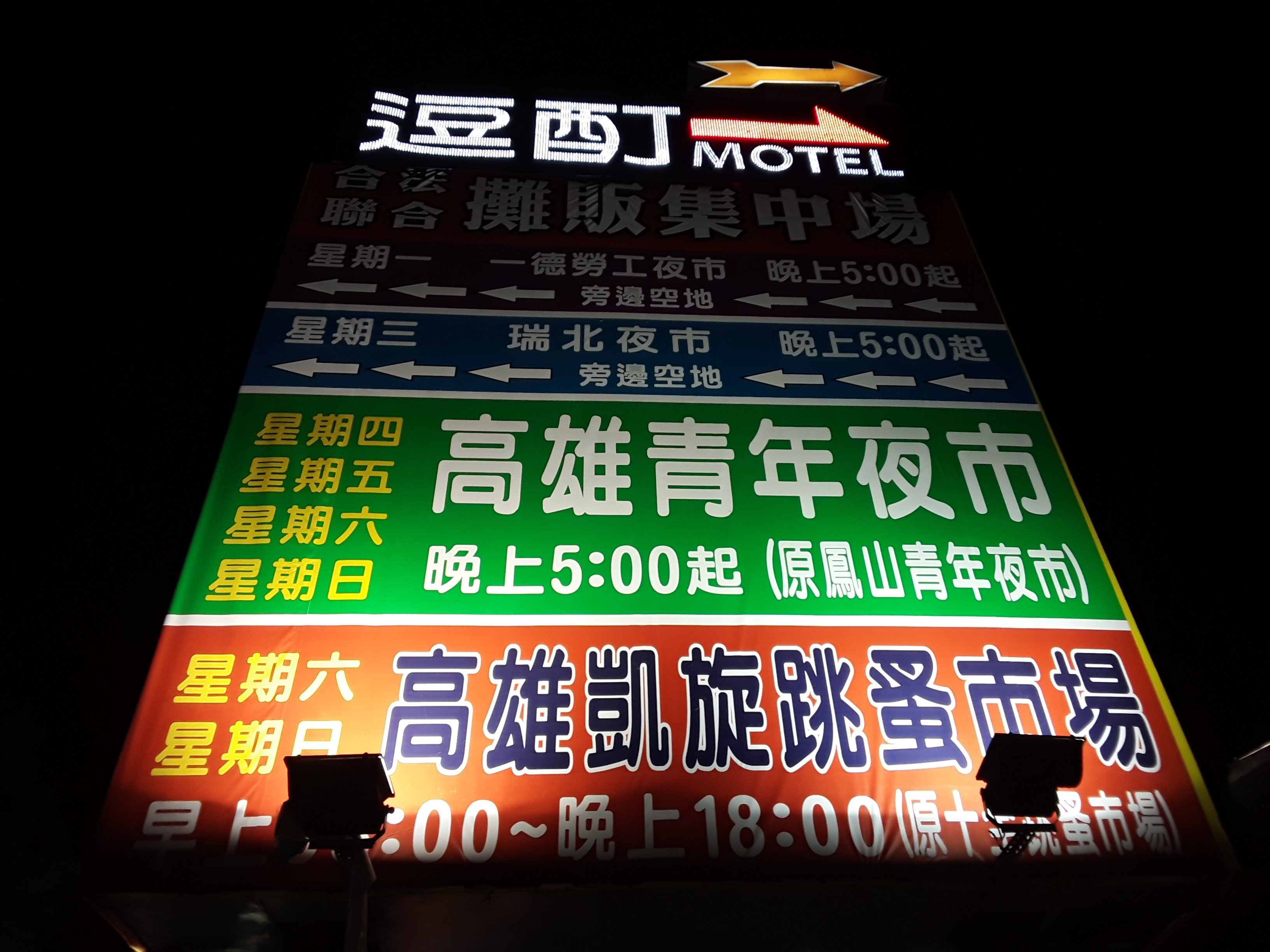 The banner of all the night markets on Kaisyuan Rd, Kaohsiung, Taiwan.